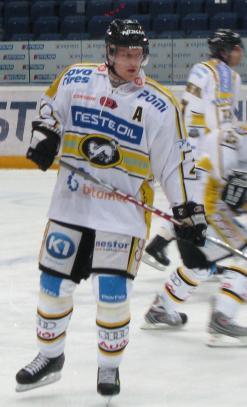 Oulun Kärpät player Oskari Korpikari